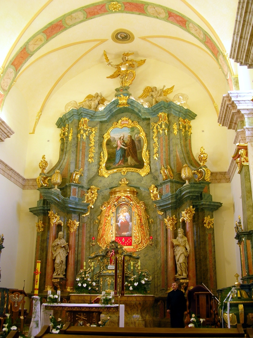 Interior of the church in Markowice